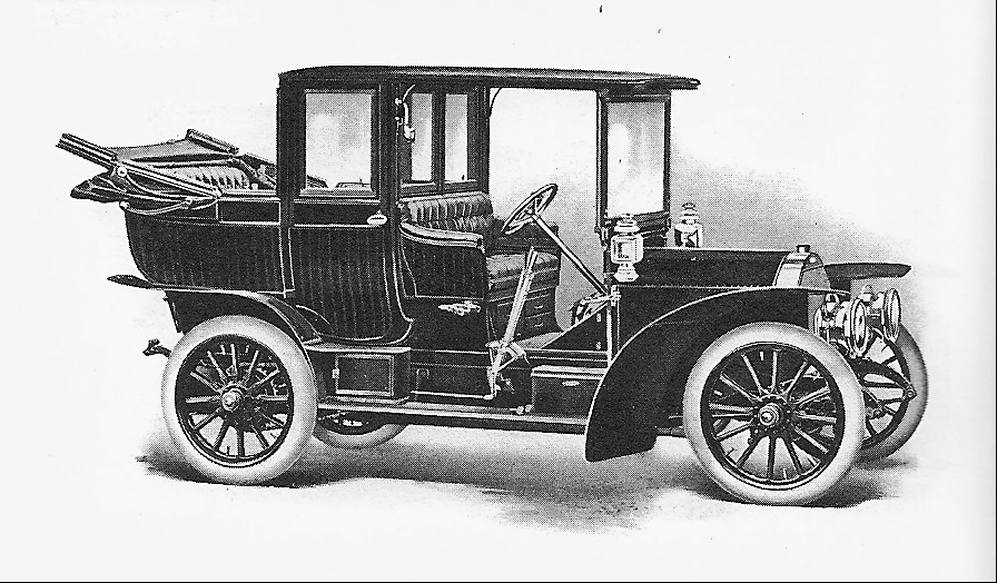 1908 Matheson Landaulet